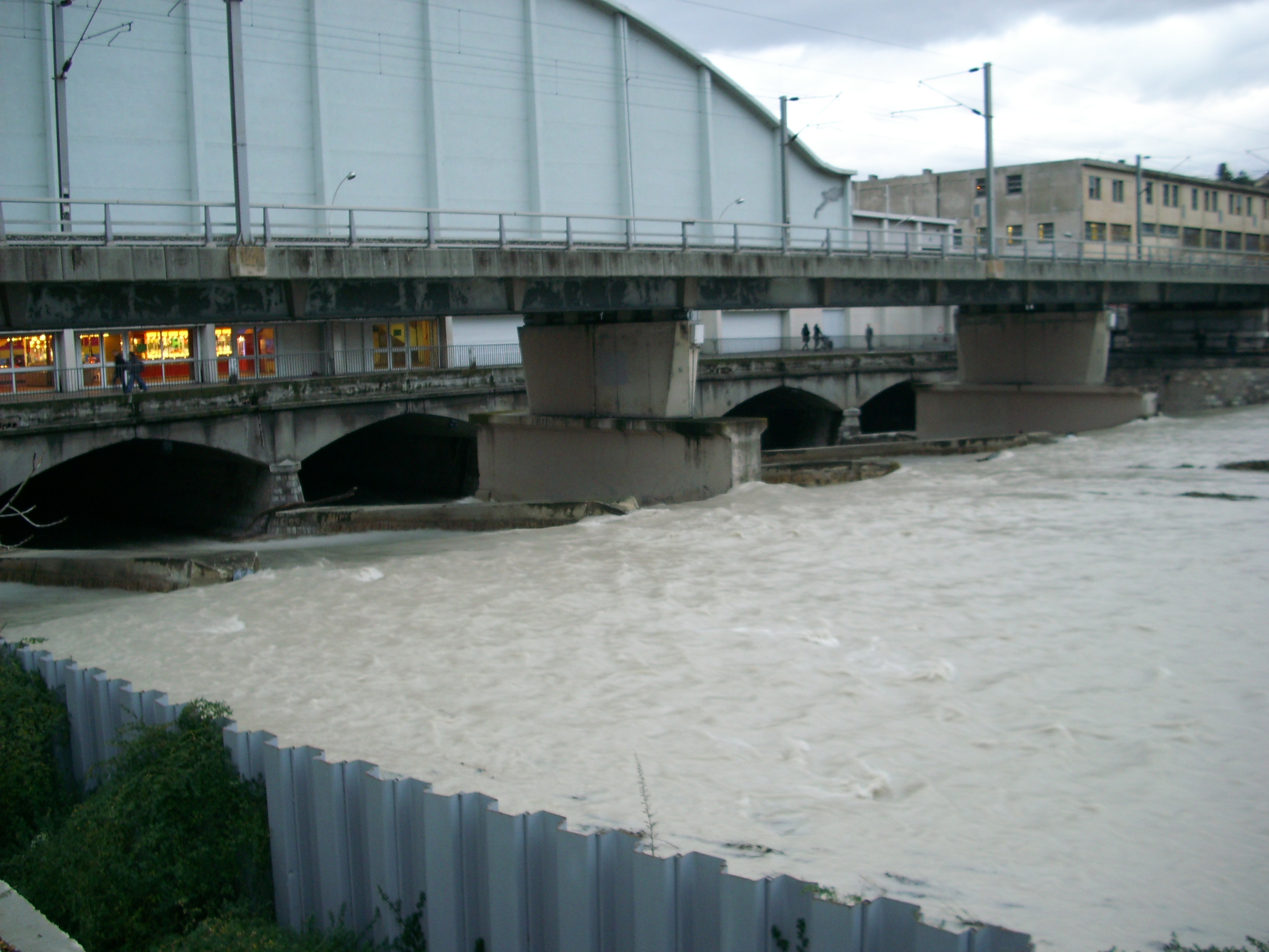 View of the Paillon river in Nice, France.